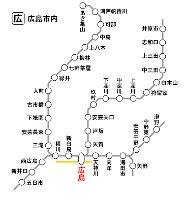 Area of stations in Hiroshima-shinai. Prepared by User:Highexpress.